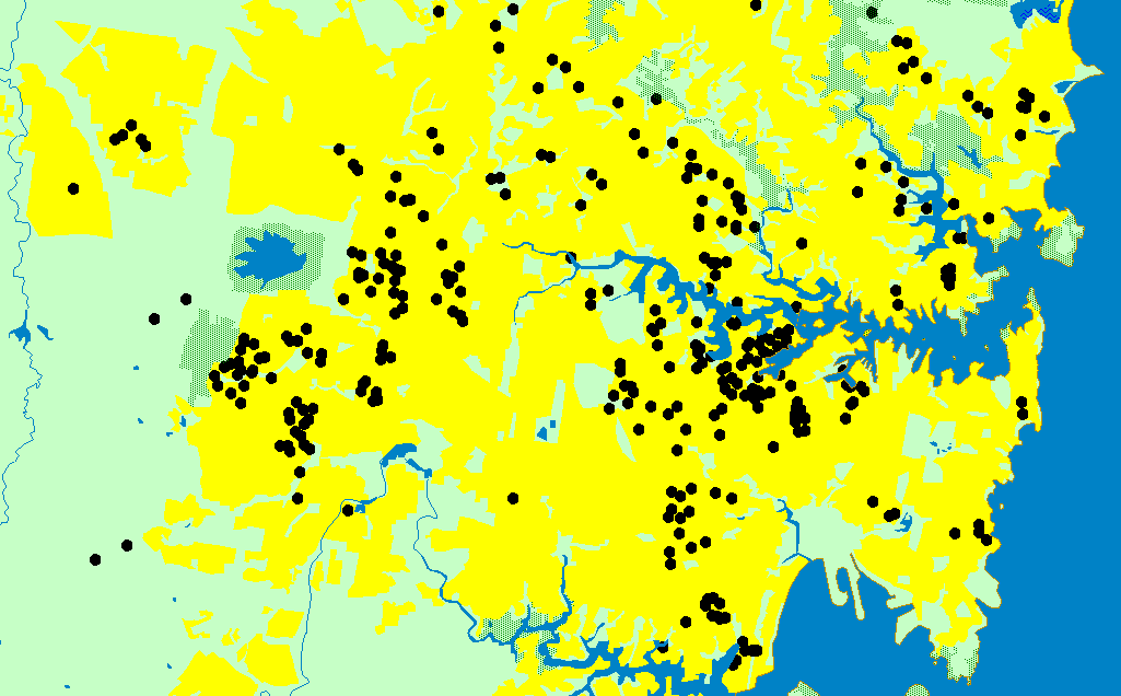 Italy-born residents in Sydney, 2006. One dot equals 1,000 Italy born residents in a collection district